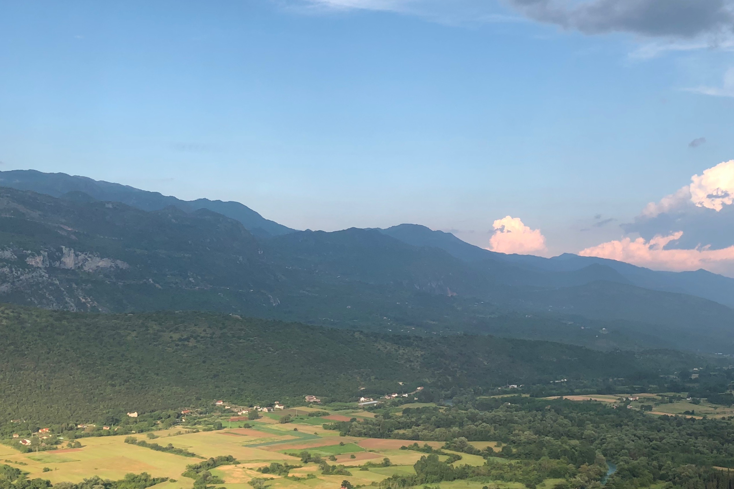 Bjelopavlici plain or valley between Nikšič and Danilovgrad, view from M3 road.